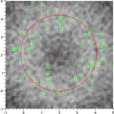 Detection of a circle in a very noisy picture. The picture is a fuzzy circle: the intensity is a gaussian function of the difference between the distance to the center C(2;2) and the radius r = 2 of the nominal circle. A random background is added. The intensity ranges from 6 to 172, for a 256-level grey scale. The points that exceed a given intensity (threshold = 140) are extracted and represented as green crosses. The circle fitting is performed on these points. We use the Kåsa and Coope linear method (method of the algebraic distance).